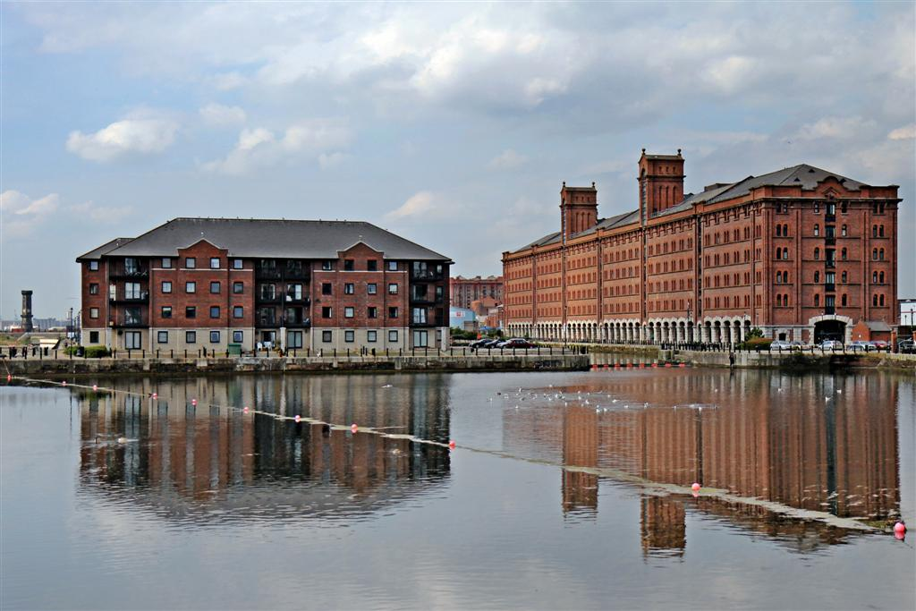 Residential Development, Waterloo Dock, Liverpool